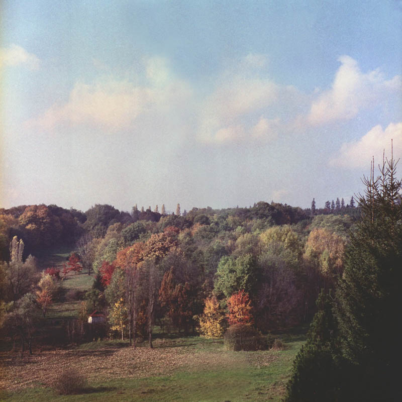 Țaul park, Donduseni district.